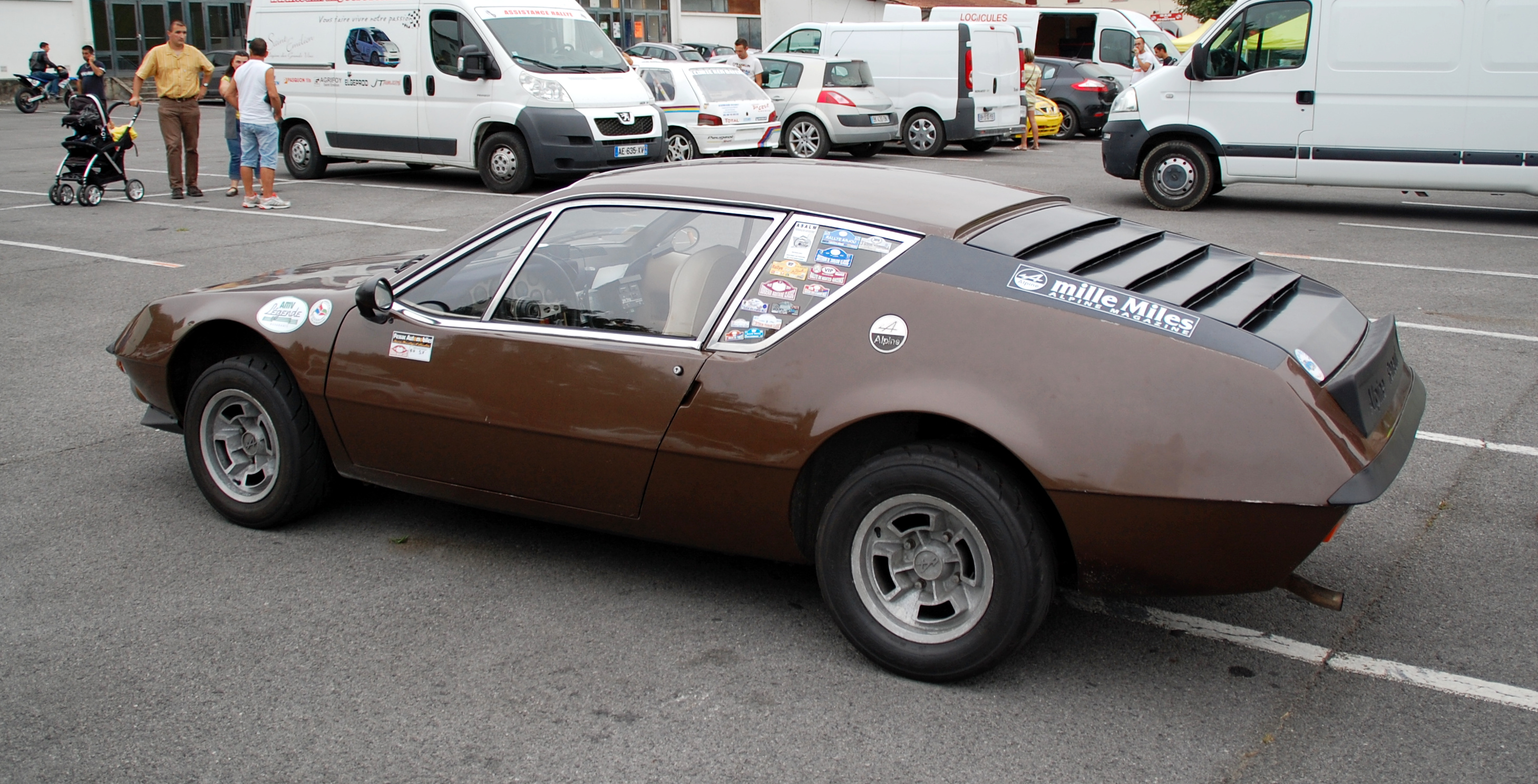 Alpine A310, Rallye du Pays Basque 2013